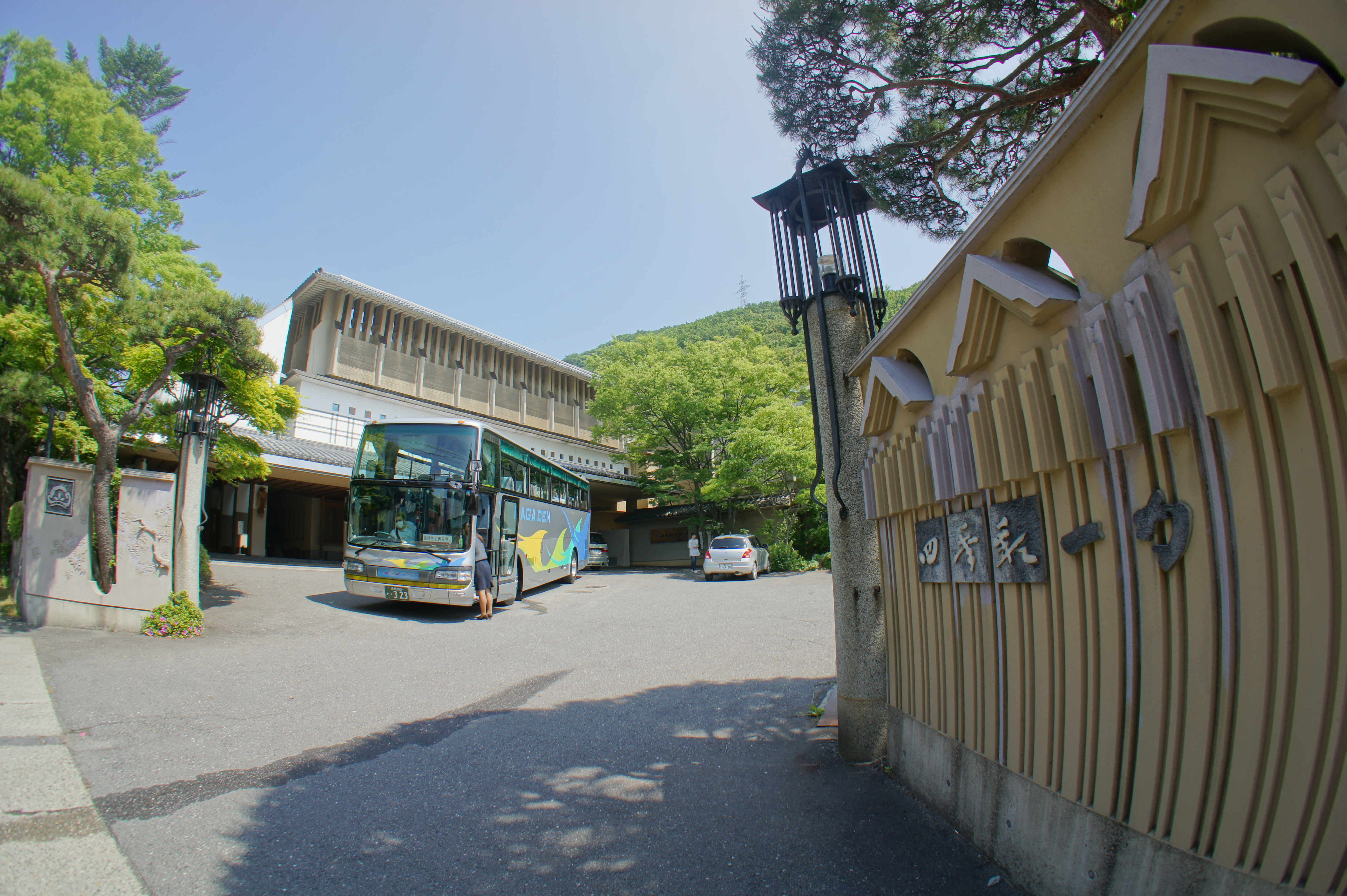 "Shikisai Ichiriki" ryokan in Bandai-Atami spa resort, Koriyama, Fukushima, Japan